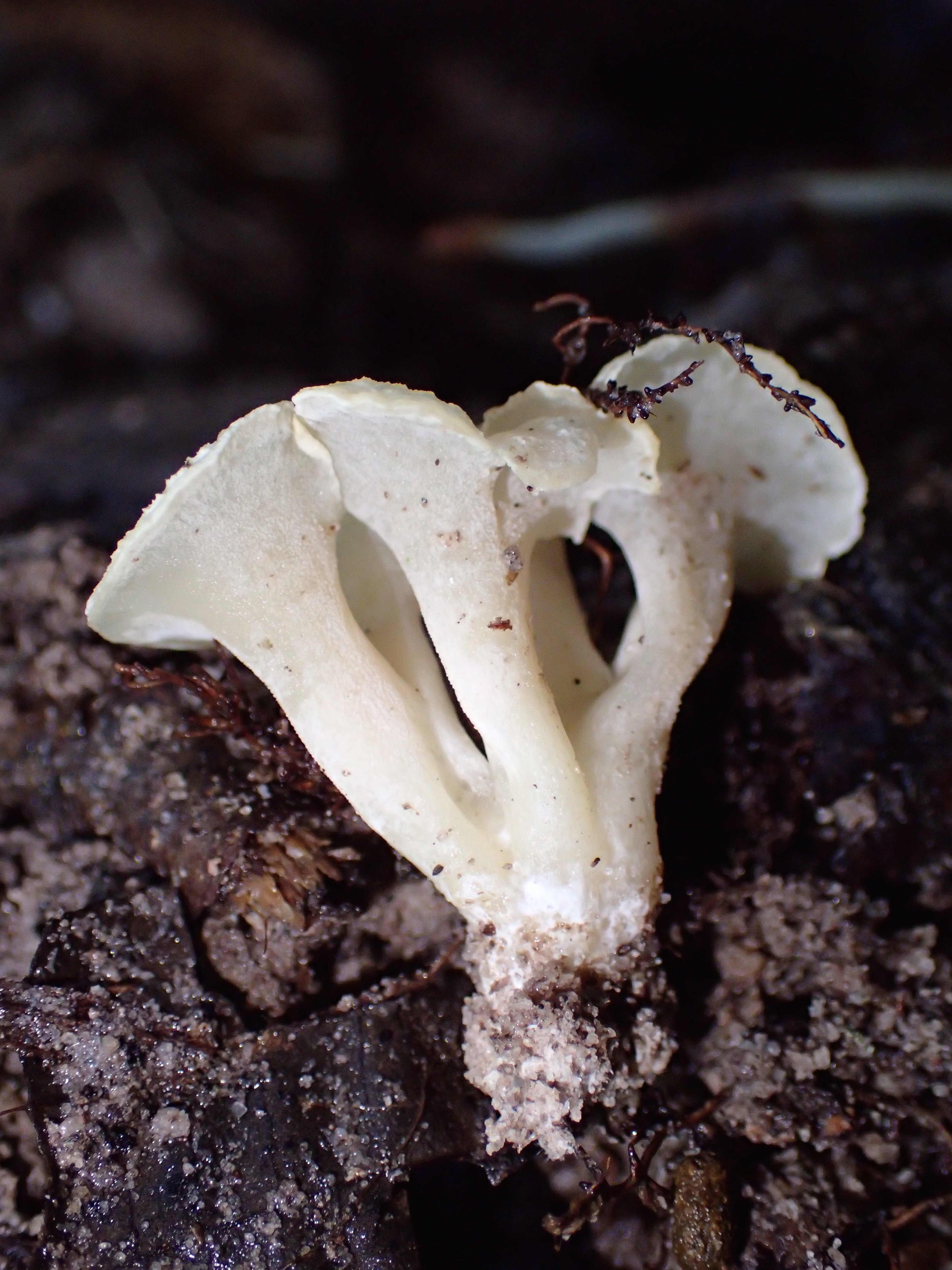 Fruit bodies of the fungus Hydnodon thelephorus (Lév.) Banker, photographed in Serra do Tepequém, Amajari, Roraima, Brazil.